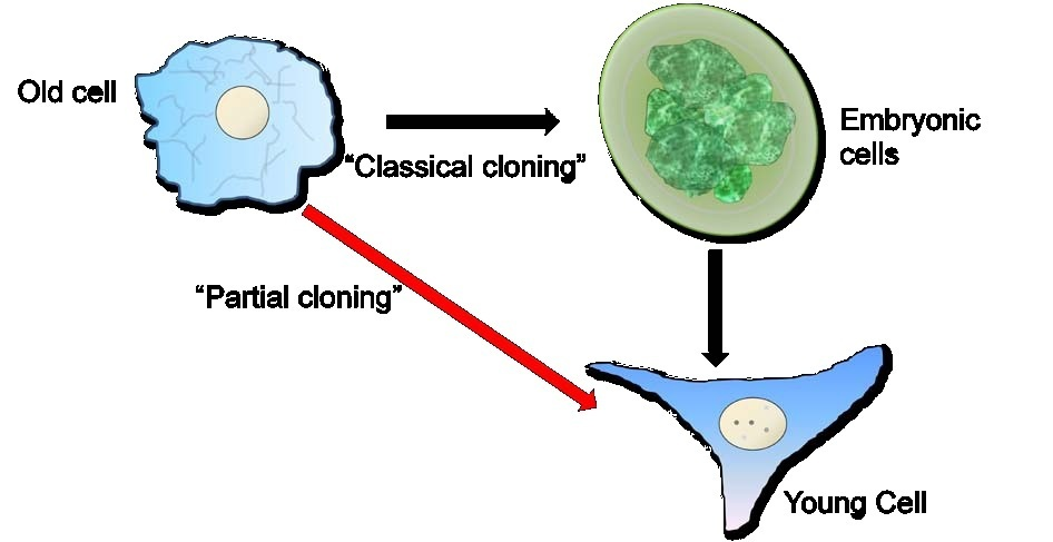 small decription of the diagram